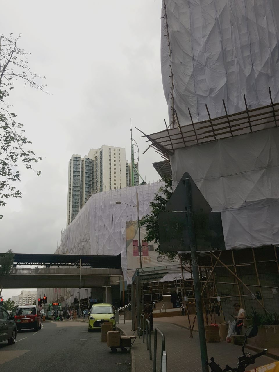 Kai Tin Shopping Centre Exterior in Apr 2020